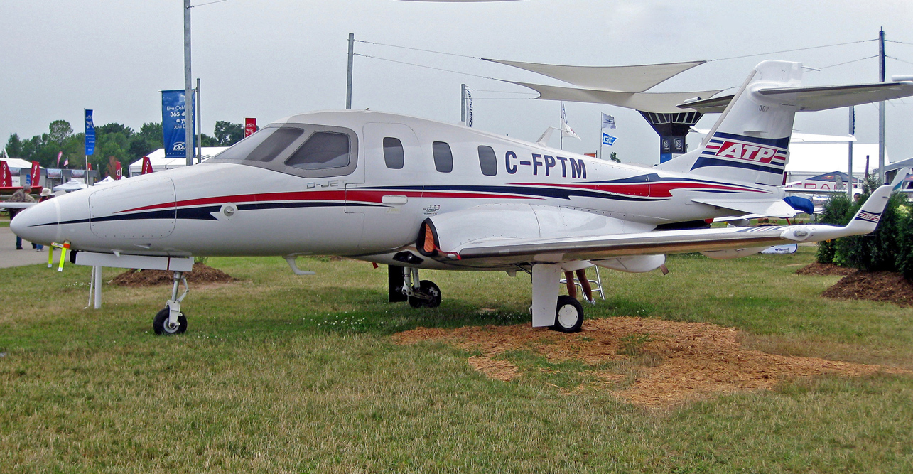 The second prototype Diamond D-jet exhibited at the 2010 EAA Convention at Oshkosh, Wisconsin